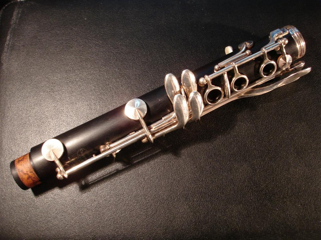 Buffet R13 Clarinet Lower Joint